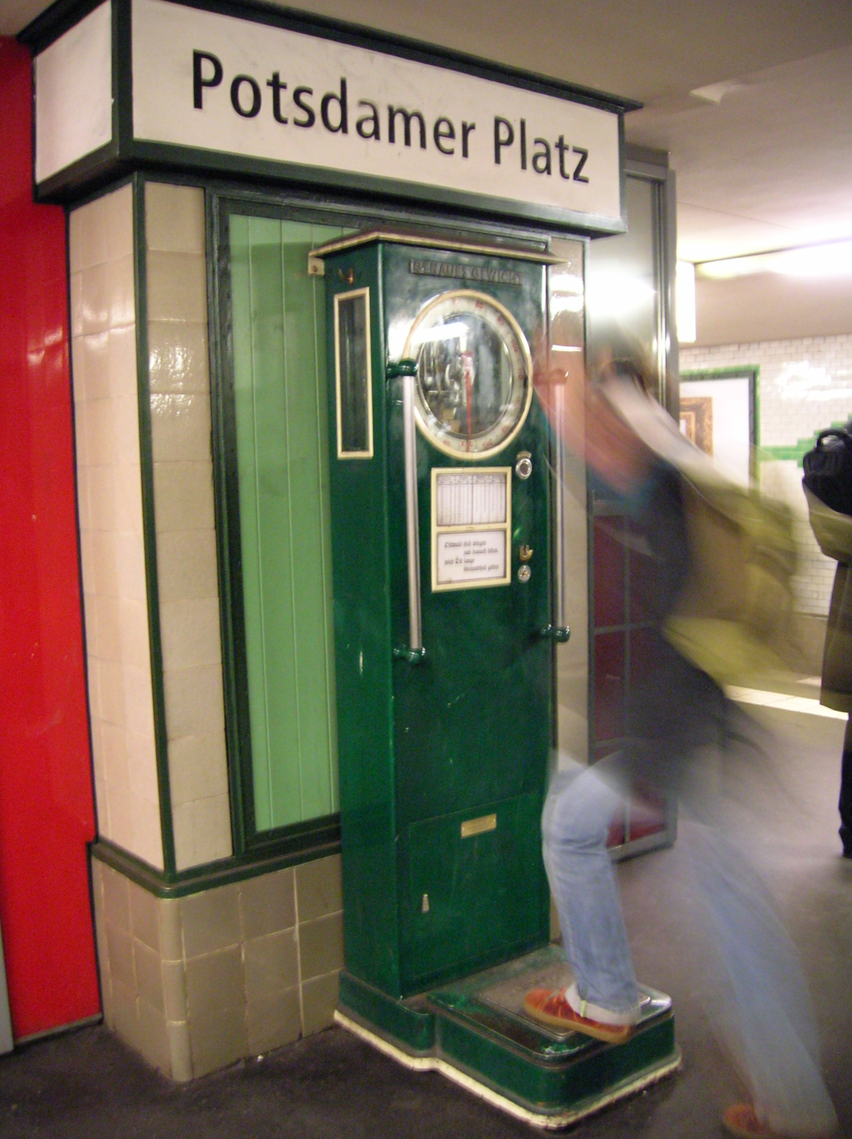 Weighing scale in Potsdamer Platz subway station (Berlin, Germany).